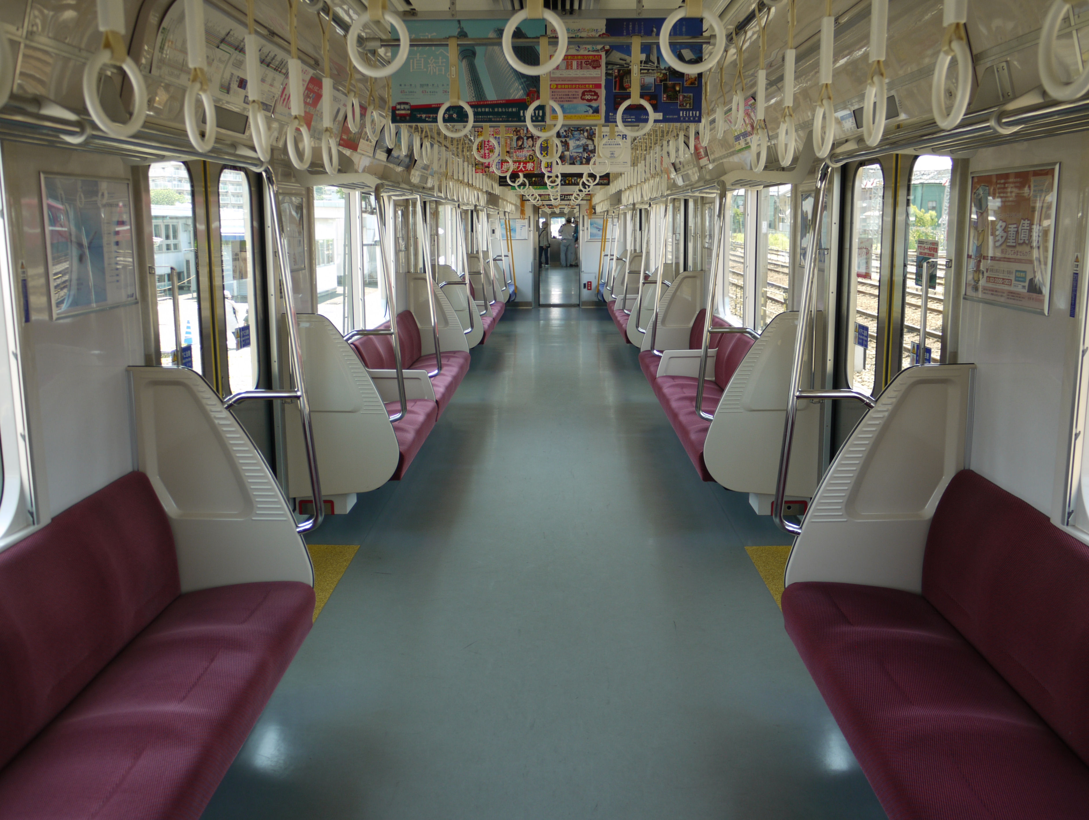 Inside Keikyu 1482